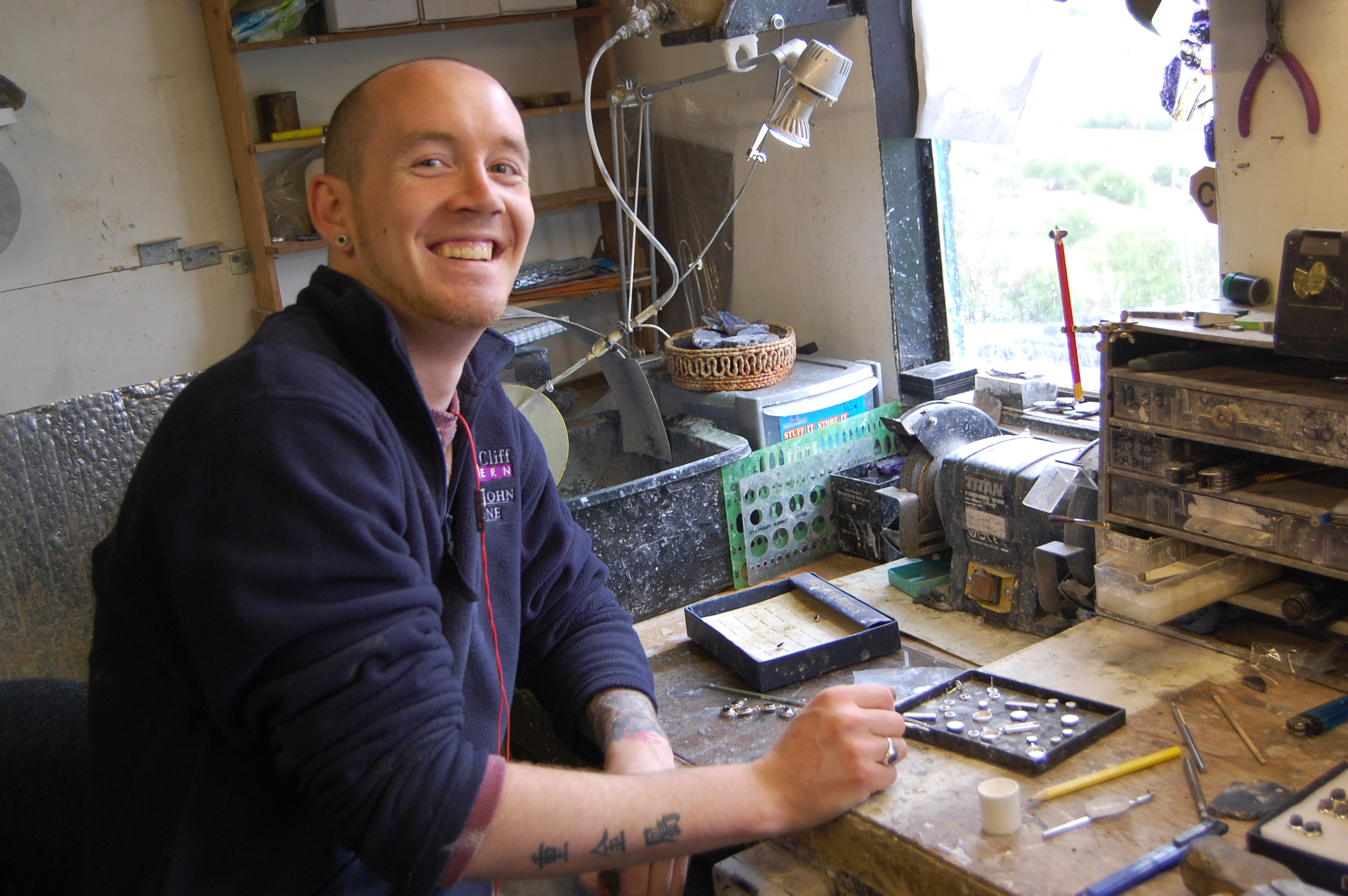 For making jewellery, flat slices of Blue John at Treak Cliff Cavern, Derbyshire, England, are marked out and cut into shapes such as circles or ovals, then finished on a grinding wheel. The rear faces are painted white. The pieces in this numbered series of images were made by John Turner, shown here.